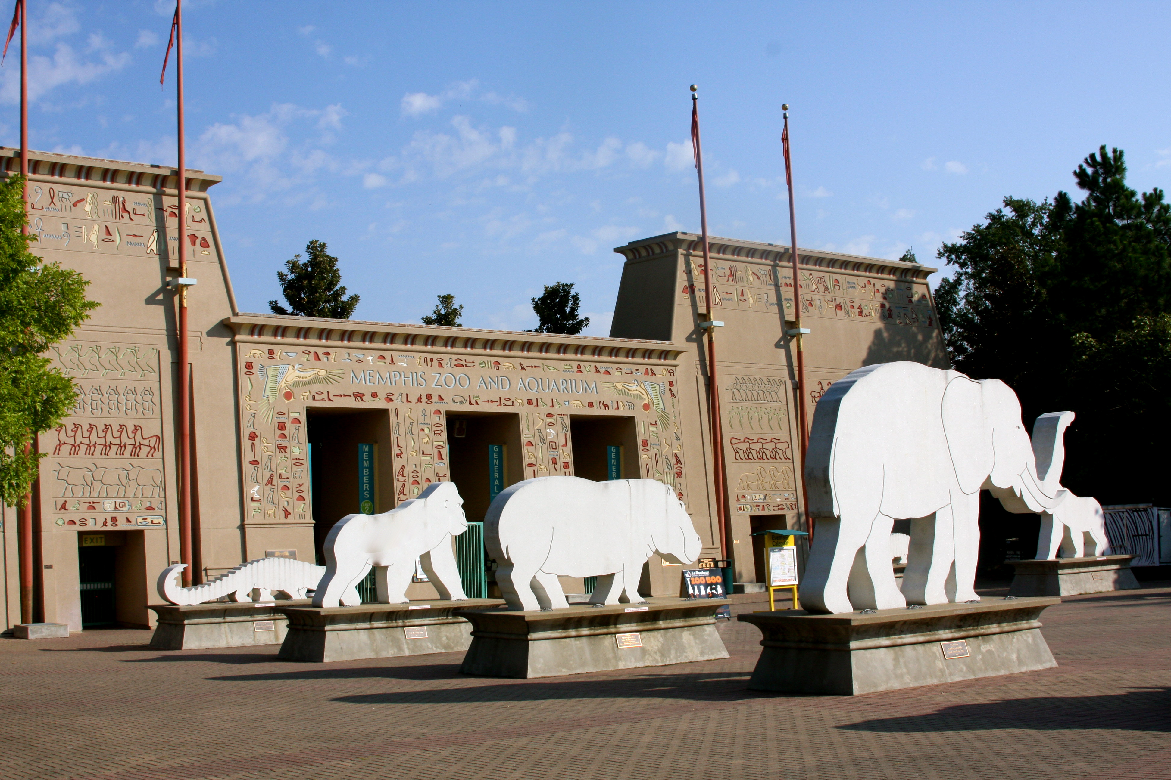 Exterior shot of the Memphis Zoo